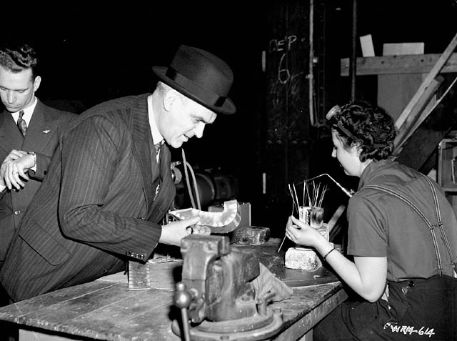 C.D. Howe (NFB image) The Hon. C.D. Howe speaks to a woman worker at an aircraft factory.